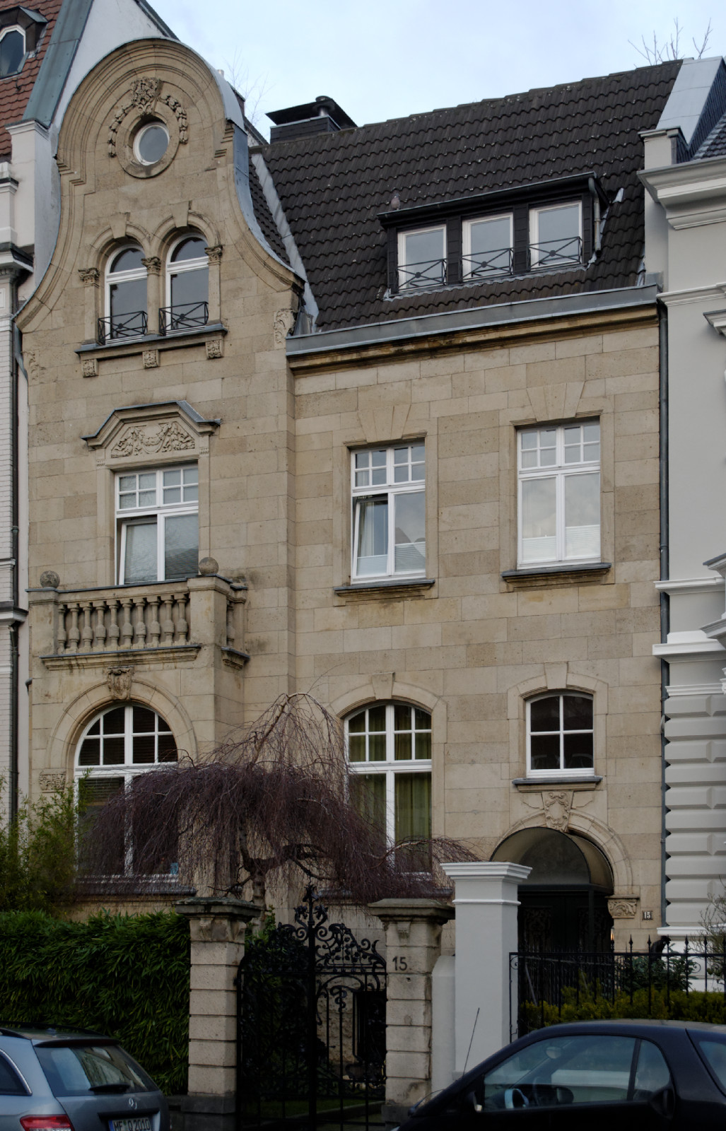 House Humboldtstraße 15 in Düsseldorf-Düsseltal, Germany